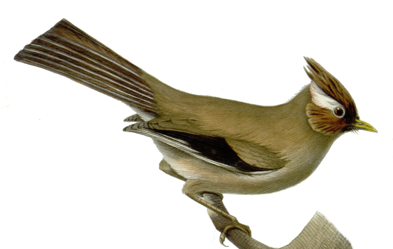 Yuhina diademata